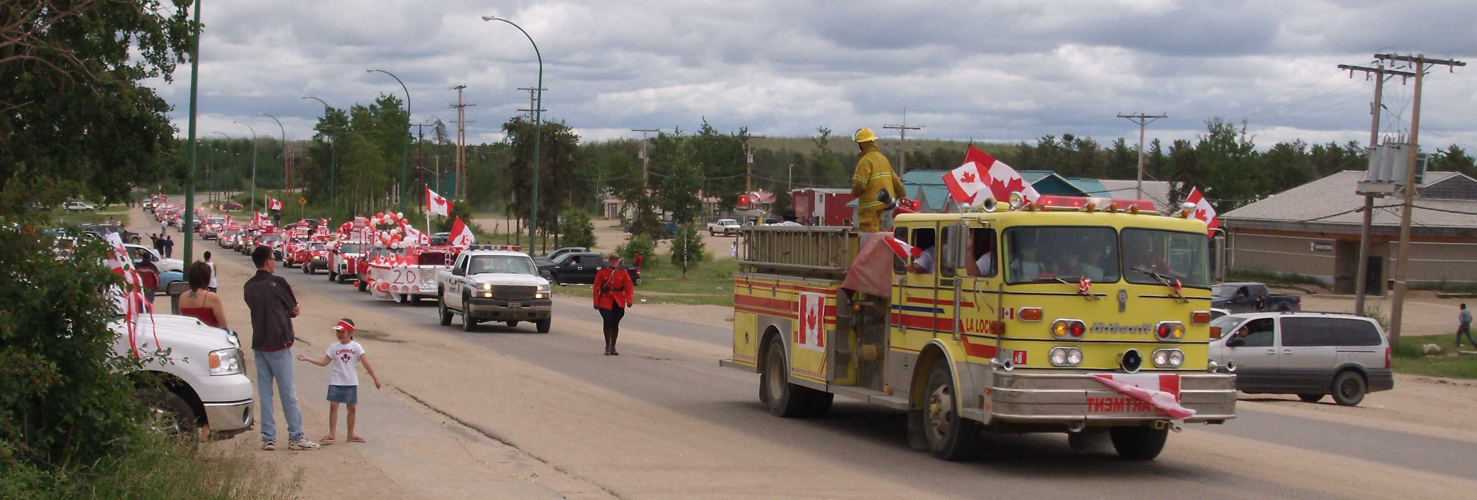 Canada Day Parade on main street in La Loche, Saskatchewan in 2008